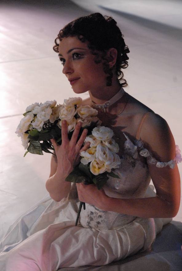 Prima ballerina of the Serbian National Theatre Srpski (latinica): Prvakinja Baleta Srpskog narodnog pozorišta Српски (ћирилица): Првакиња Балета Српског народног позоришта